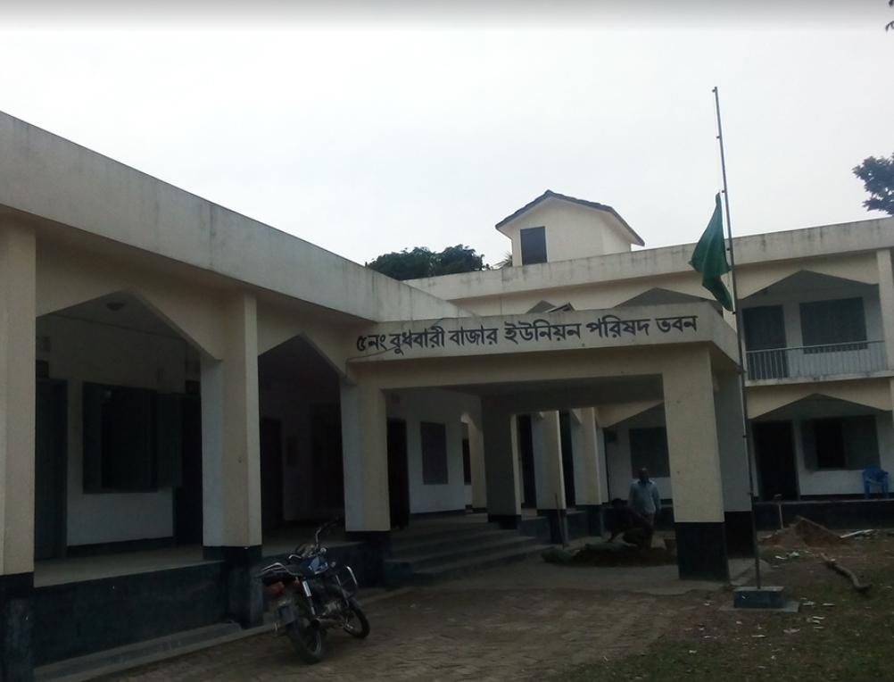 Budhbari Bazar Union